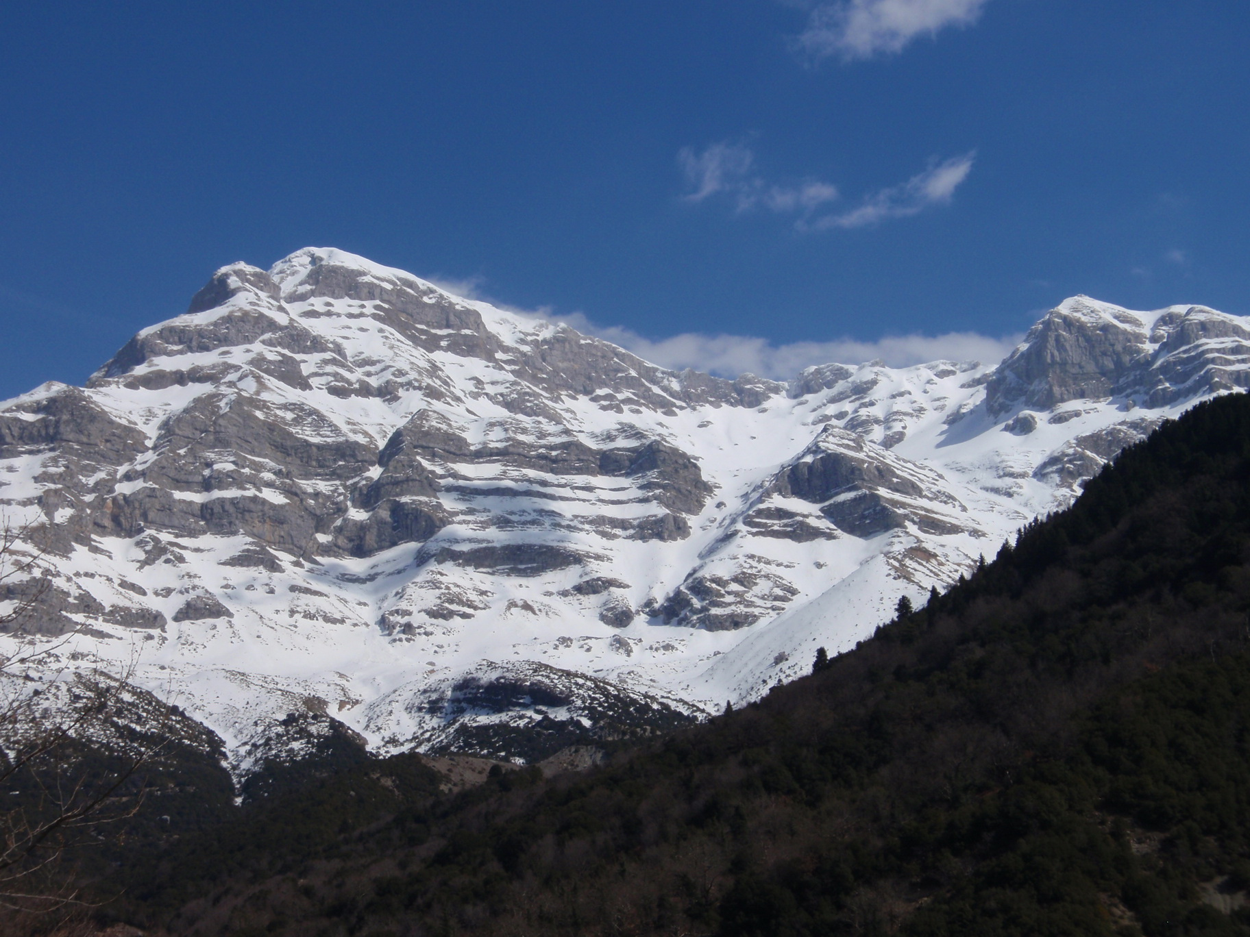 Tzoumerka as seen from Lepiana